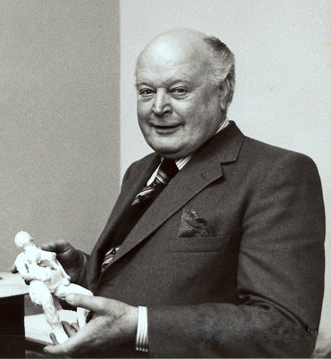 Portrait of edward adamson; property of john timlin, edward adamson's executor.